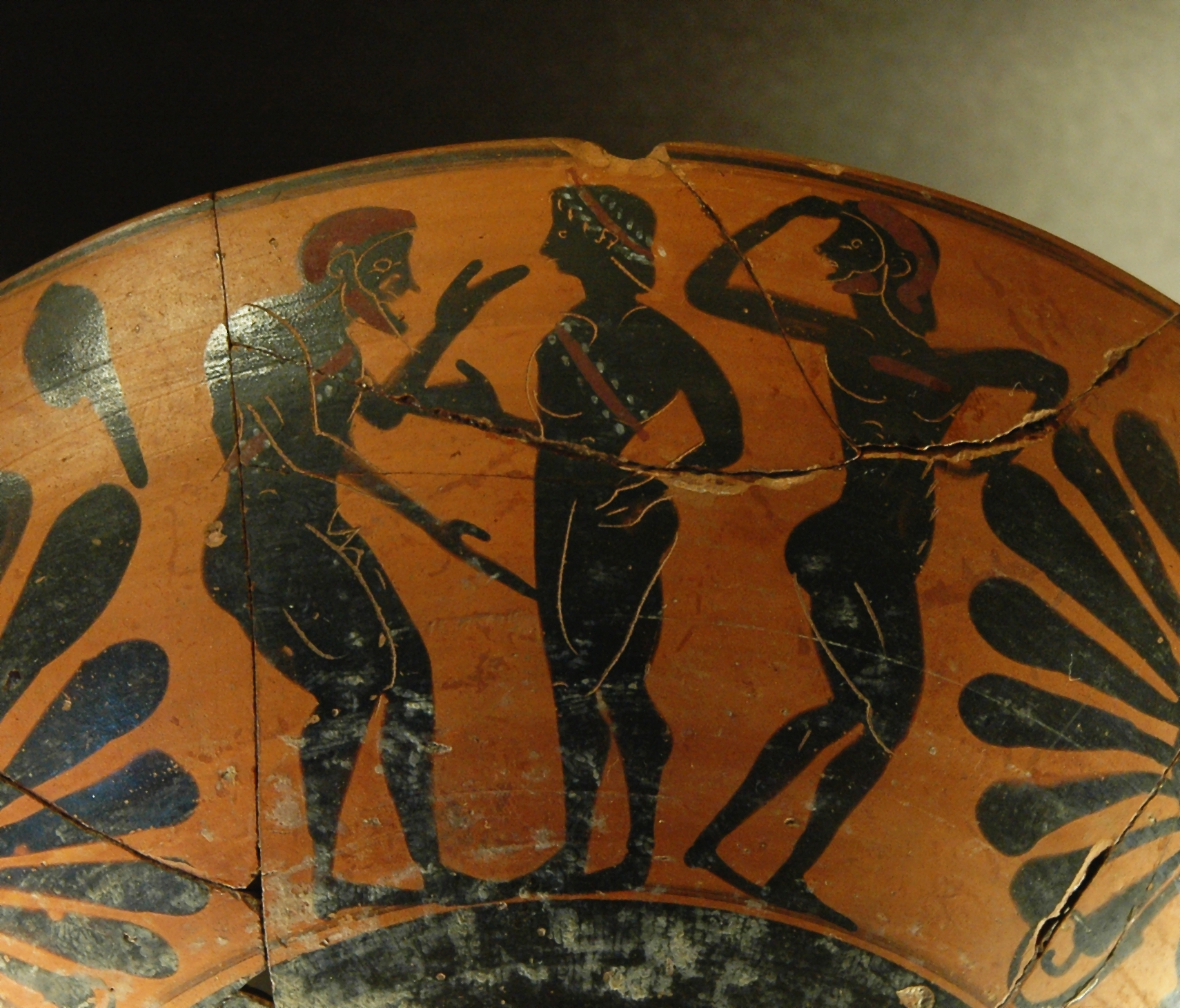 Pederastic courtship. Detail from an Attic black-figure cup, ca. 530 BC–520 BC. Found in Athens.